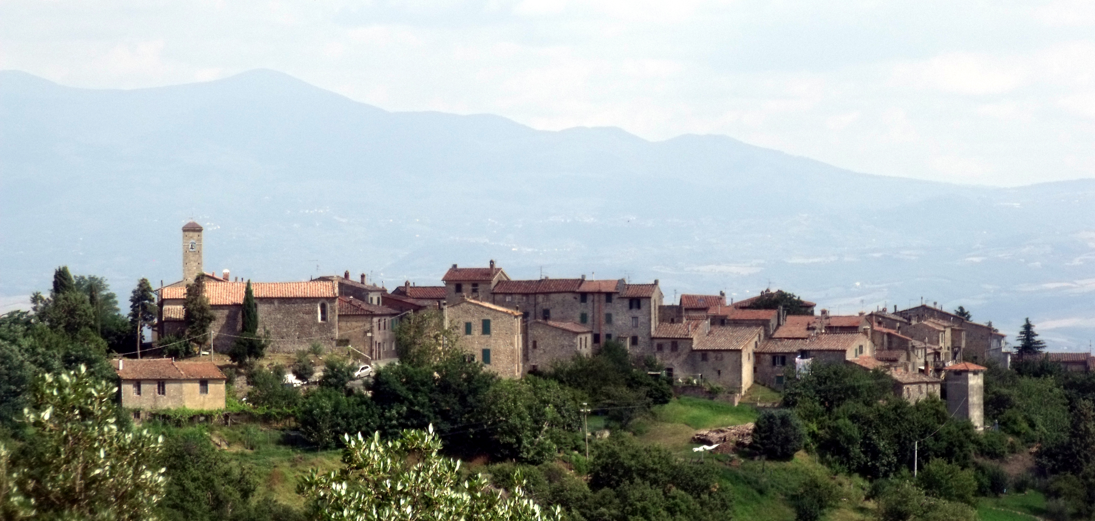 Panorama of Casale di Pari, hamlet of Civitella Paganico, Maremma, Province of Grosseto, Tuscany, Italy